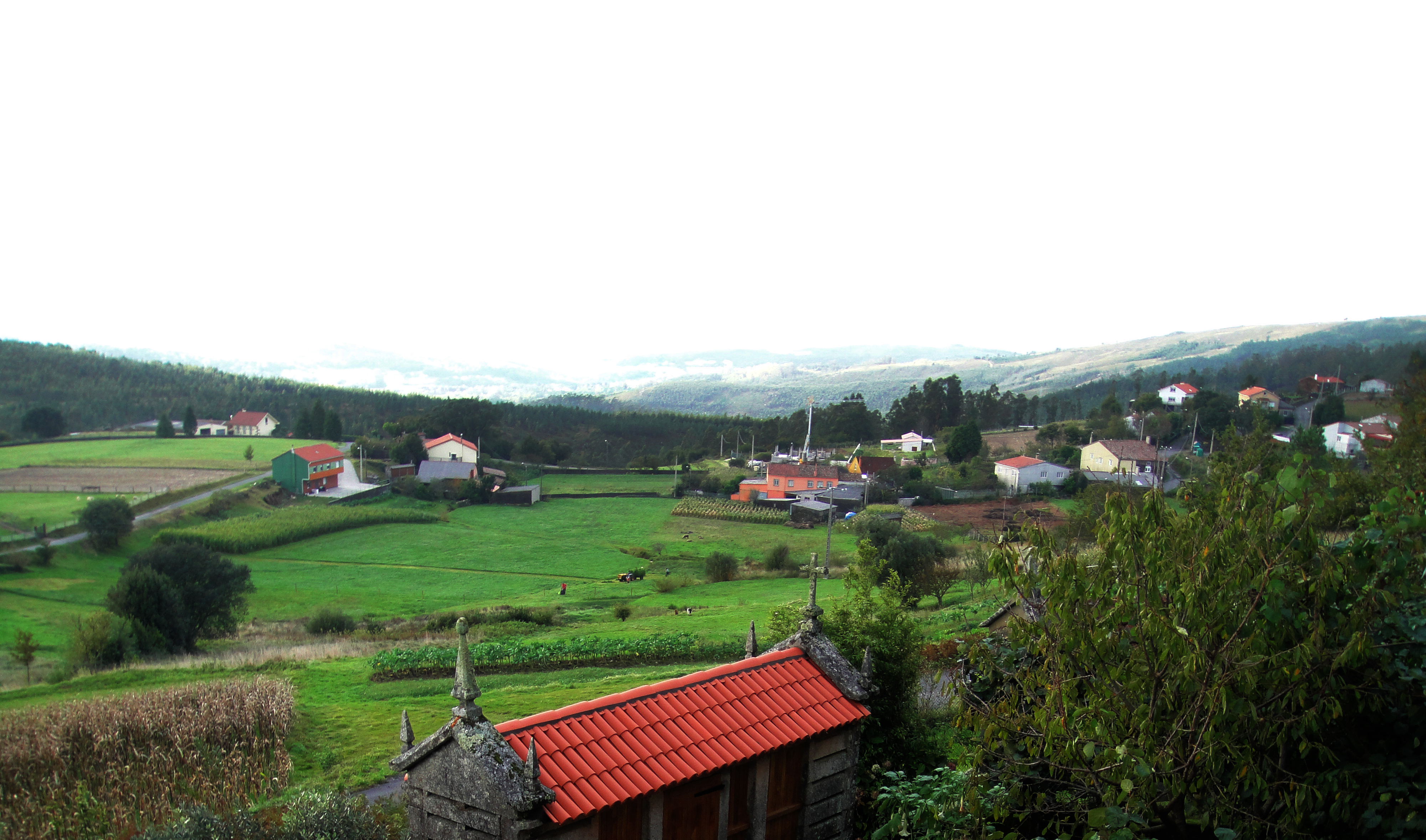 Aldea del municipio de Lousame